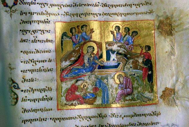 A page from a rare 12th century Gelati Gospel depicting the Nativity.